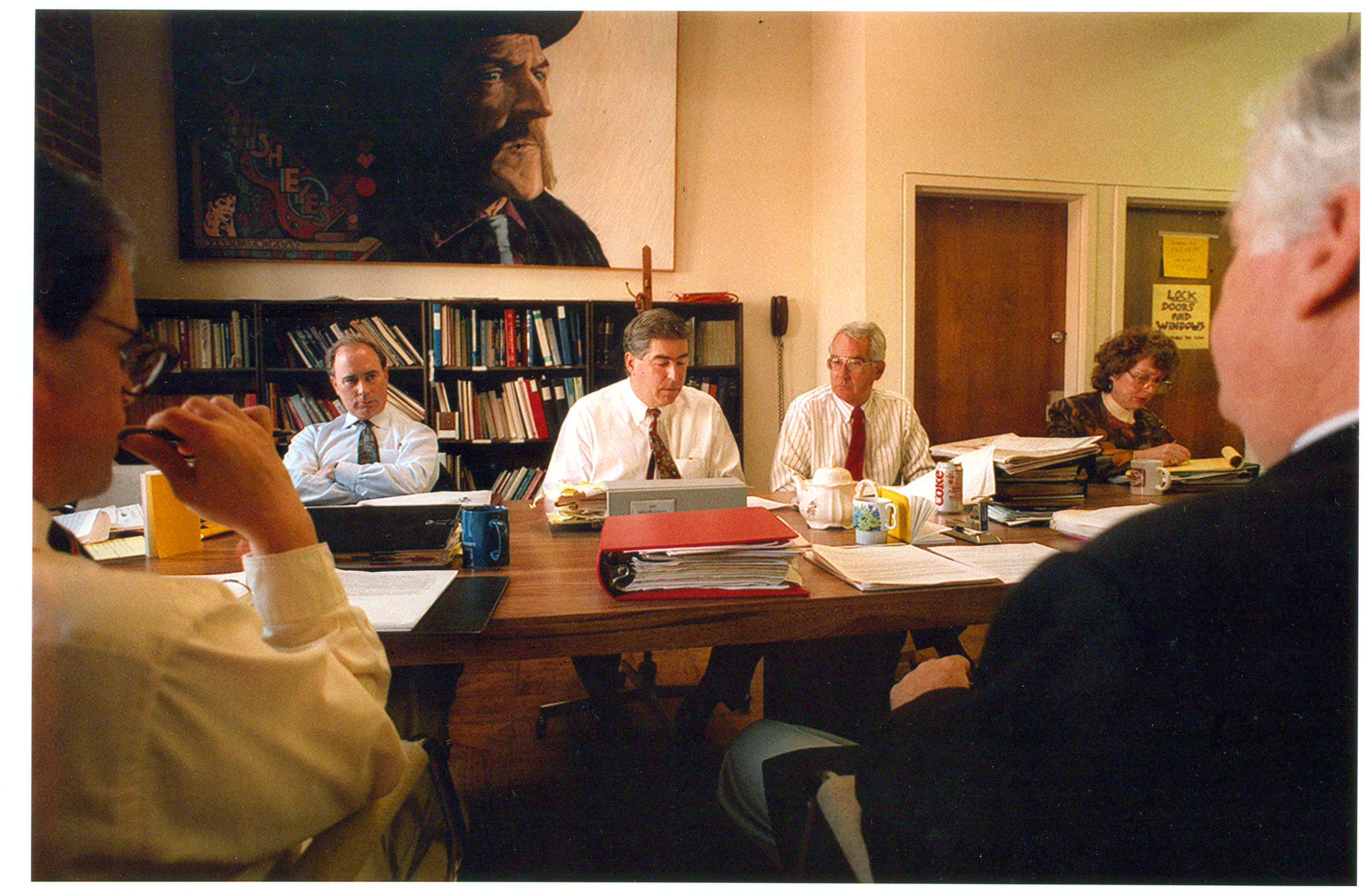 Negotiators for the San Francisco Chronicle newspaper meet with members of CNU at the newspaper guild on Natoma Street in San Francisco. Richard Jordan, center, was chief negotiator. Union leader and San Francisco Chronicle investigative reporter Bill Wallace (left, back toward camera) is at left. Doug Cuthbertson, sitting to Wallace's right, was the head of CNU, the Conference of Newspaper Unions. 1994 photo by Nancy Wong